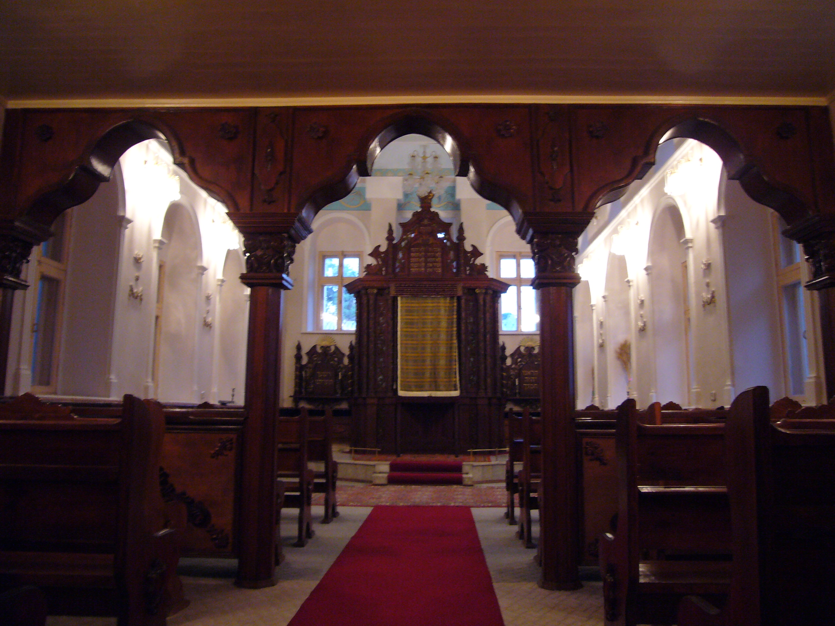 Interior of Smaller Karaim Kenassa in Eupatoria, Crimea, Ukraine.